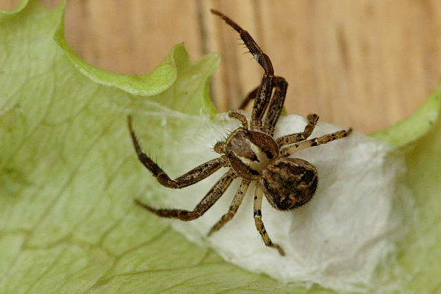 female Xysticus cristatus with egg sac, from Commanster, Belgian High Ardennes . Wikispecies has an entry on: Xysticus cristatus